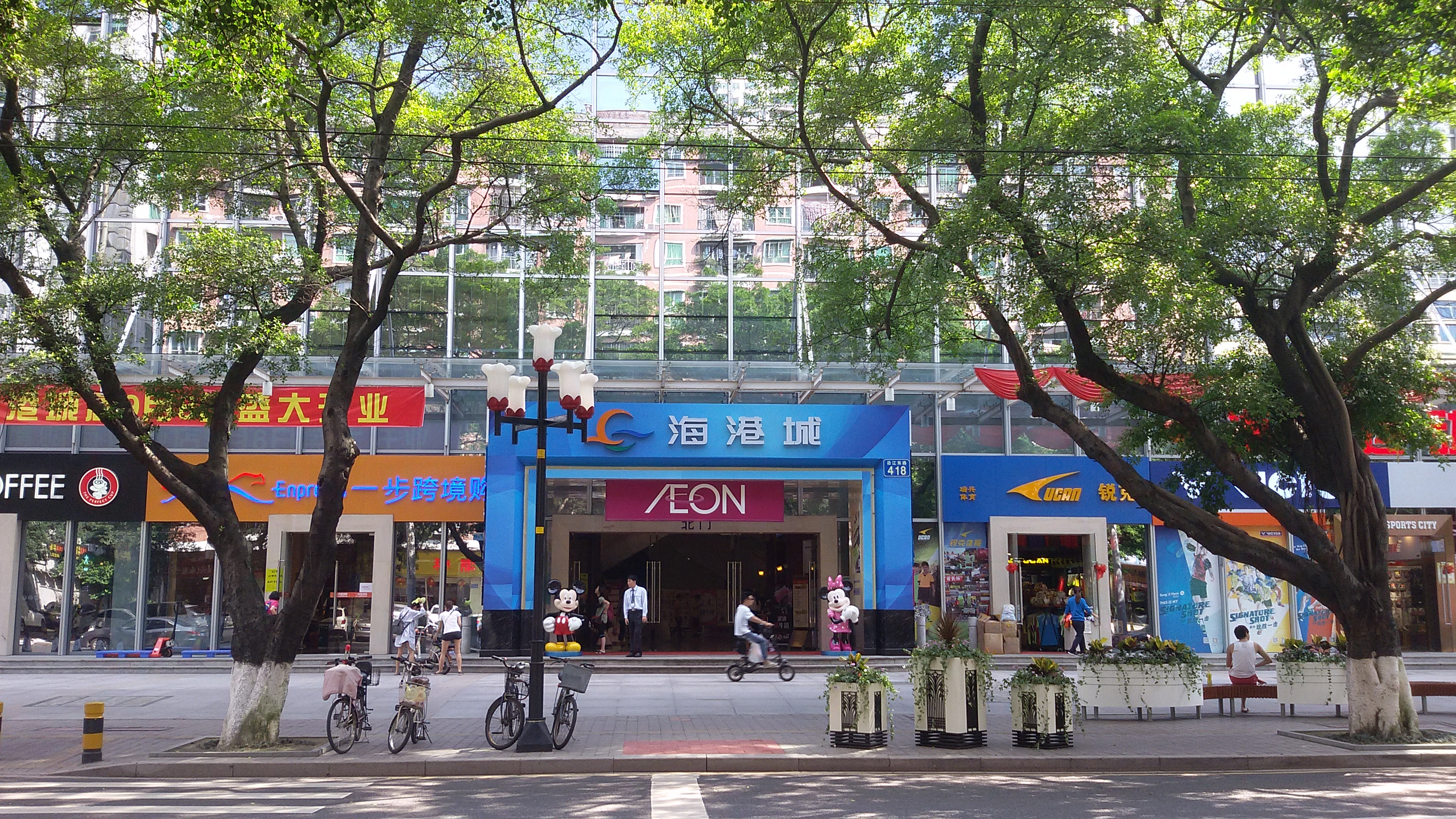 PORT CITY 粵語: 廣州海港城